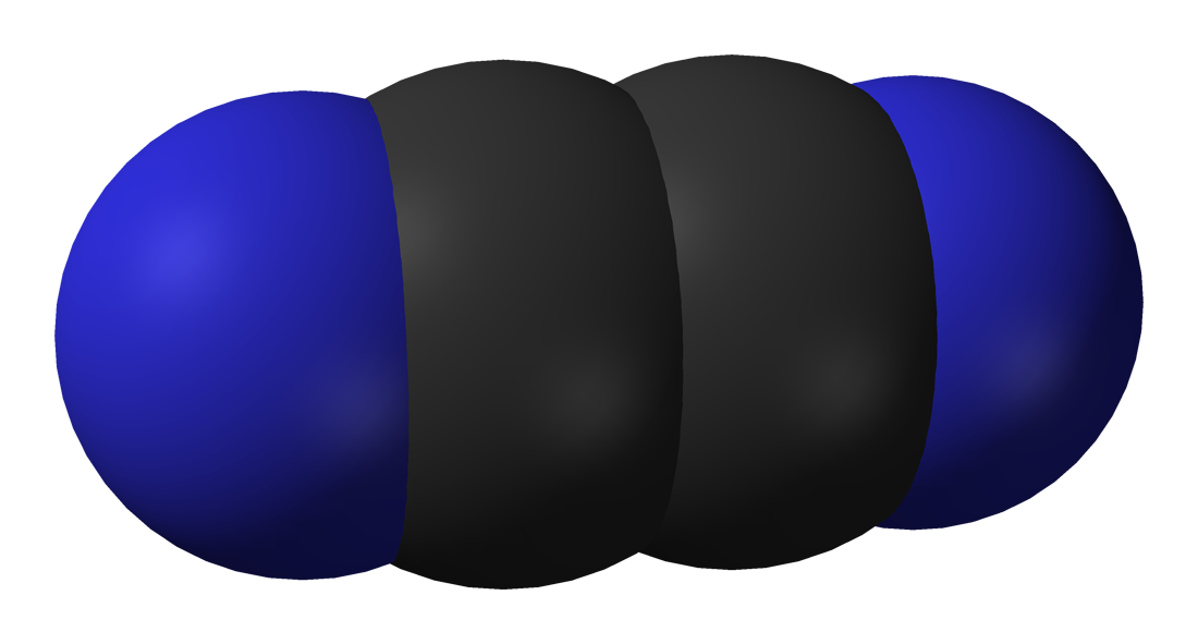 Space-filling model of the cyanogen molecule, (CN)2. Gas-phase electron diffraction data from CRC Handbook of Chemistry and Physics, 88th edition. Image generated in Accelrys DS Visualizer.